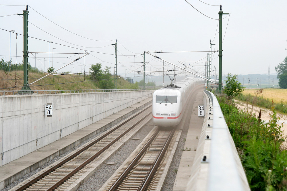 A cloud of dust is in the air, after an emergency braking of an ICE 1 on the northern ramp of the Audi-Tunnel on the Nuremberg-Ingolstadt high-speed railway line